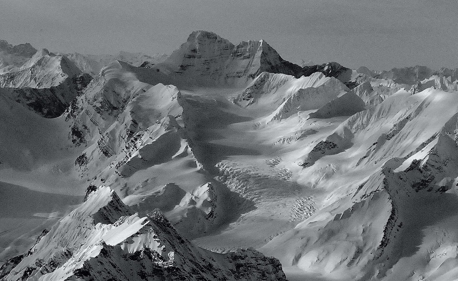 Mount Dall aerial view from east.